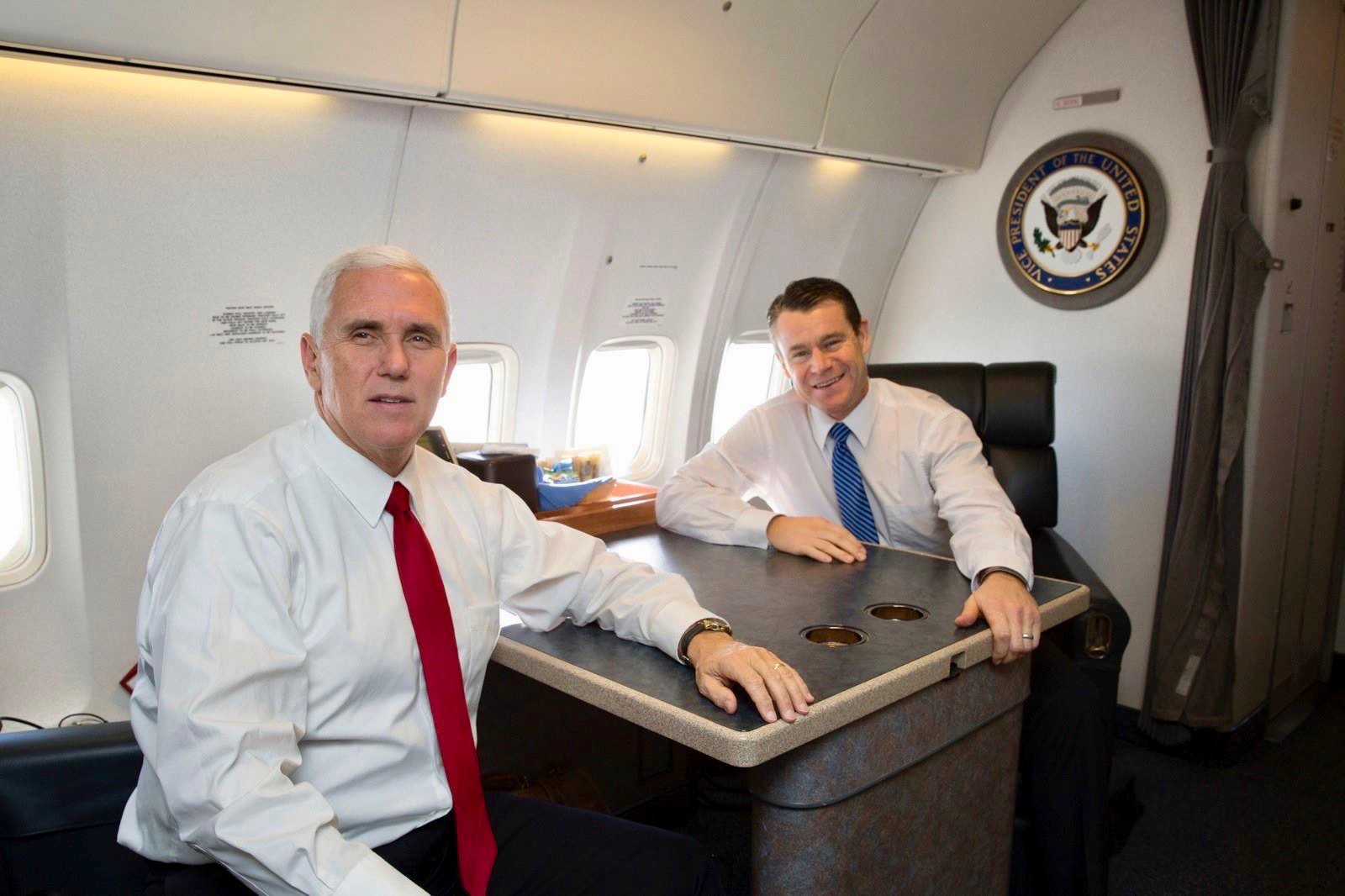 Vice President Mike Pence with Senator Todd Young